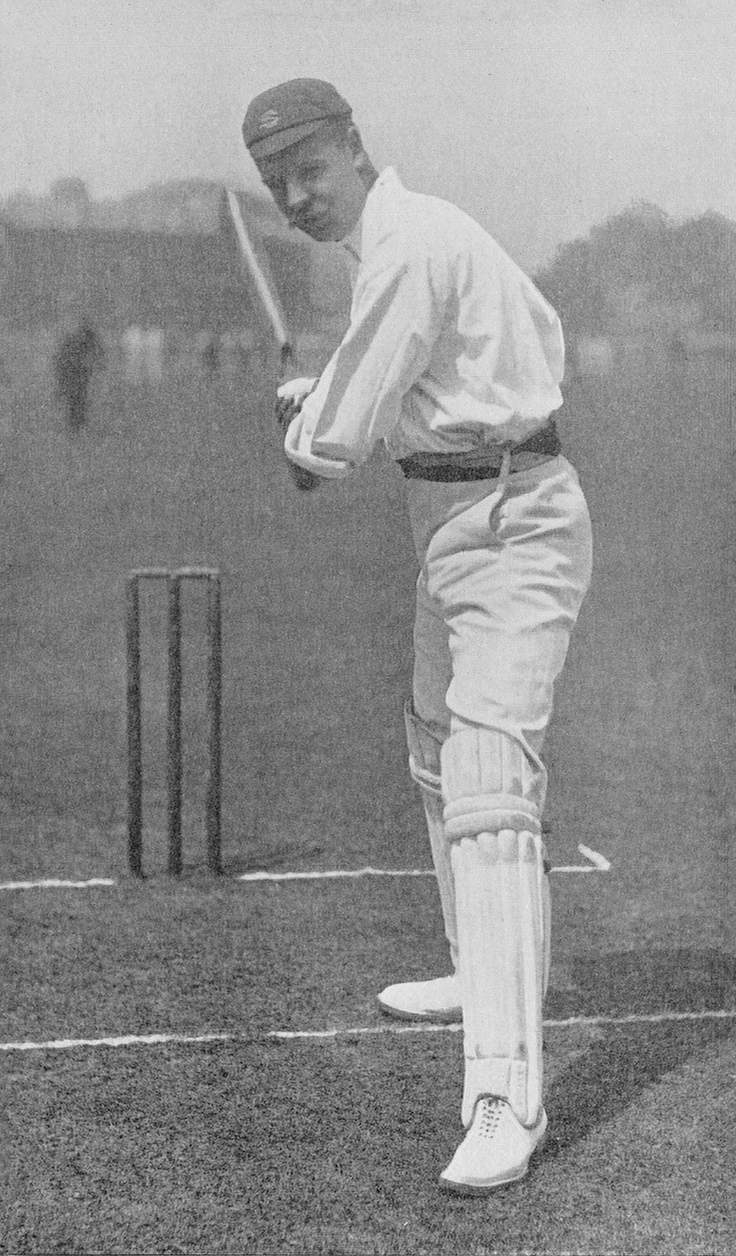 "T. Hayward in the attitude for the on-drive."